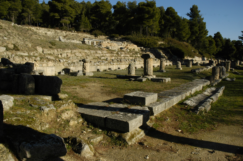 J. M. Harrington, personal digital image